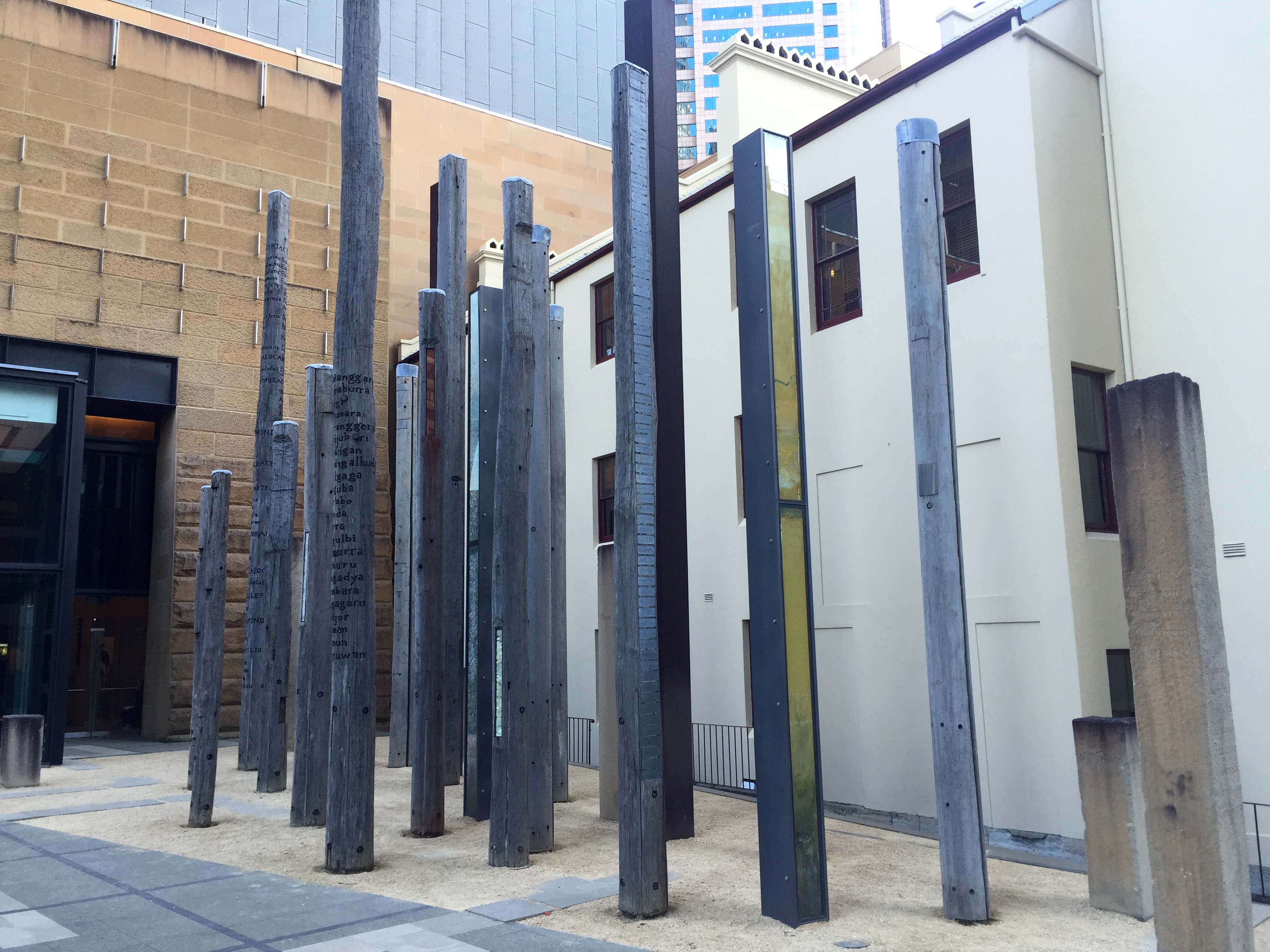 side view of the installation work